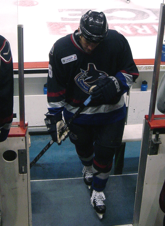 Vancouver Canucks defenceman Sami Salo in 2005.